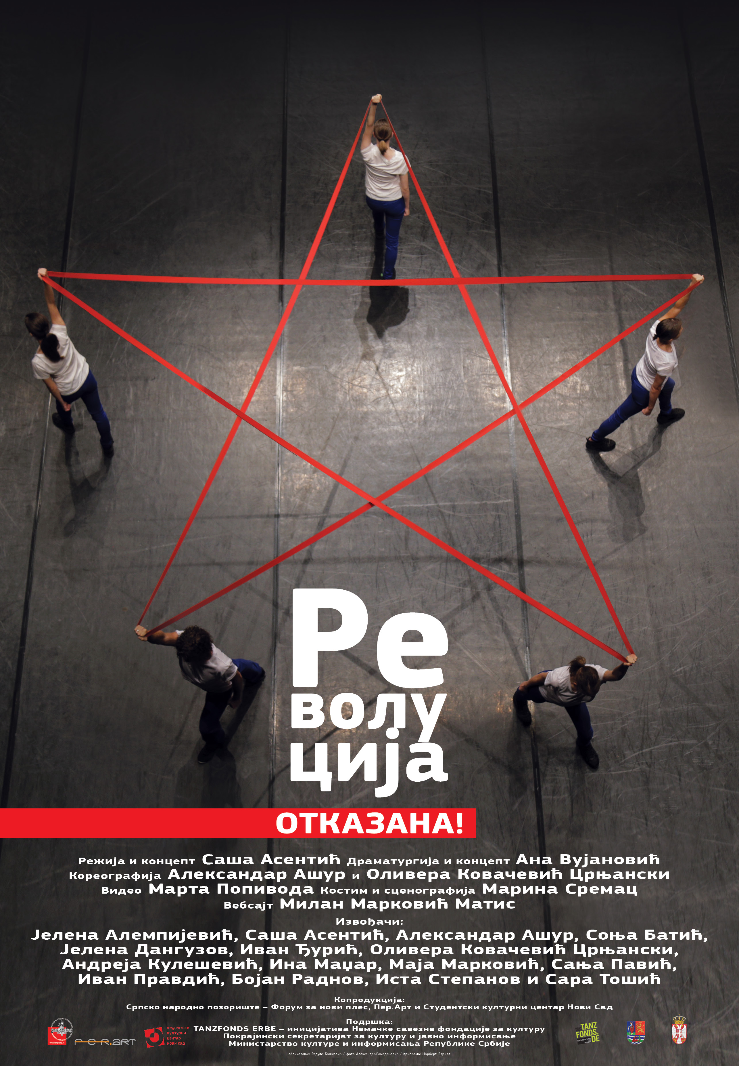 Revolution is Canceled!, SNT, Novi Sad, 2015; Theater Poster Image of the Serbian National Theatre Srpski (latinica): Revolucija otkazana!, SNP, Novi Sad, 2015; Pozorišni plakat Srpskog narodnog pozorišta Српски (ћирилица): Револуција отказана !, СНП, Нови Сад, 2015; Позоришни плакат Српског народног позоришта